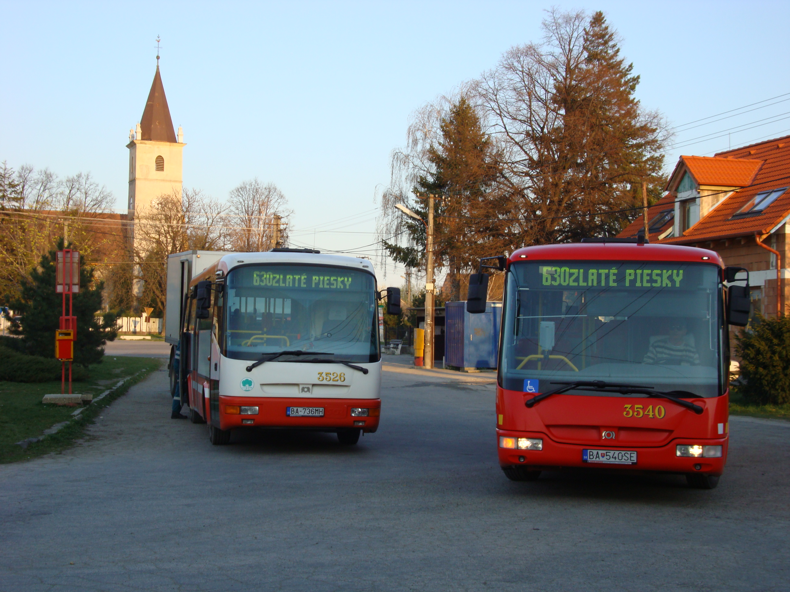 SOR BN9.5 #3540 and broken SOR B9.5 #3526 which operate on suburban line 630 in service of Dopravný podnik Bratislava in Chorvatsky Grob on Namestie Josipa Andrica .